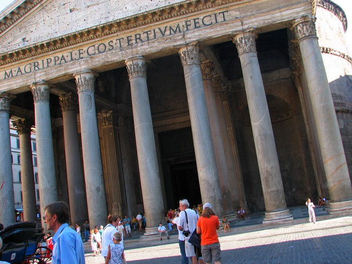 Pantheon, Rome